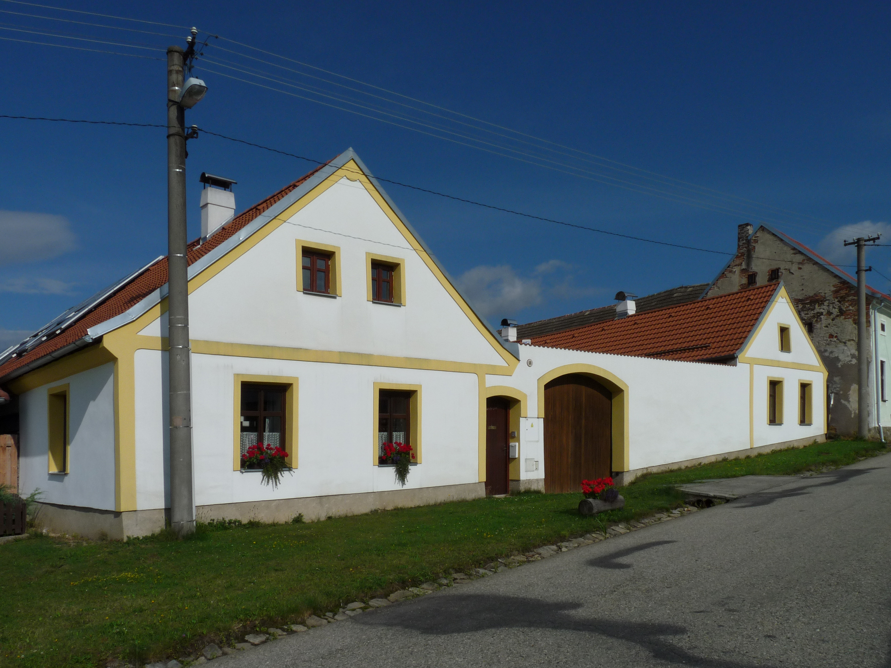 House No 14 in Radostice, a small village in České Budějovice District, Czech Republic, part of the town of Borovany. Česky: Stavení č.p. 14 ve vsi Radostice, části města Borovany v okrese České Budějovice.